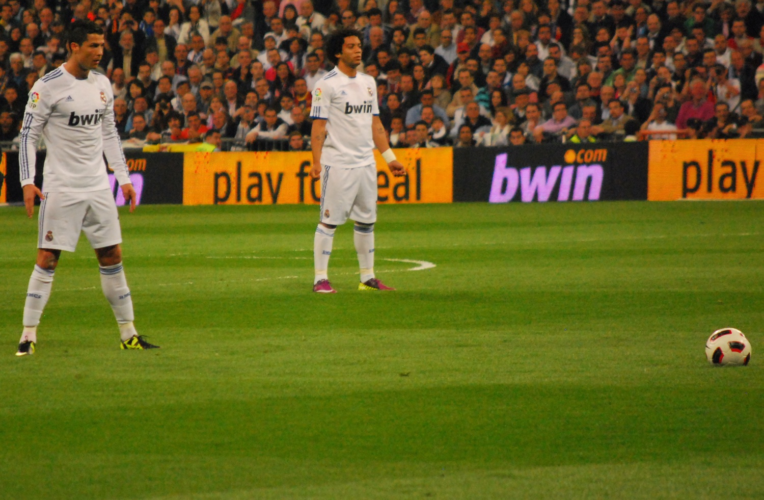 Cristiano Ronaldo free Kick